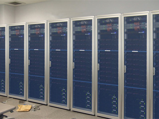 Computer Center for quantum chemistry